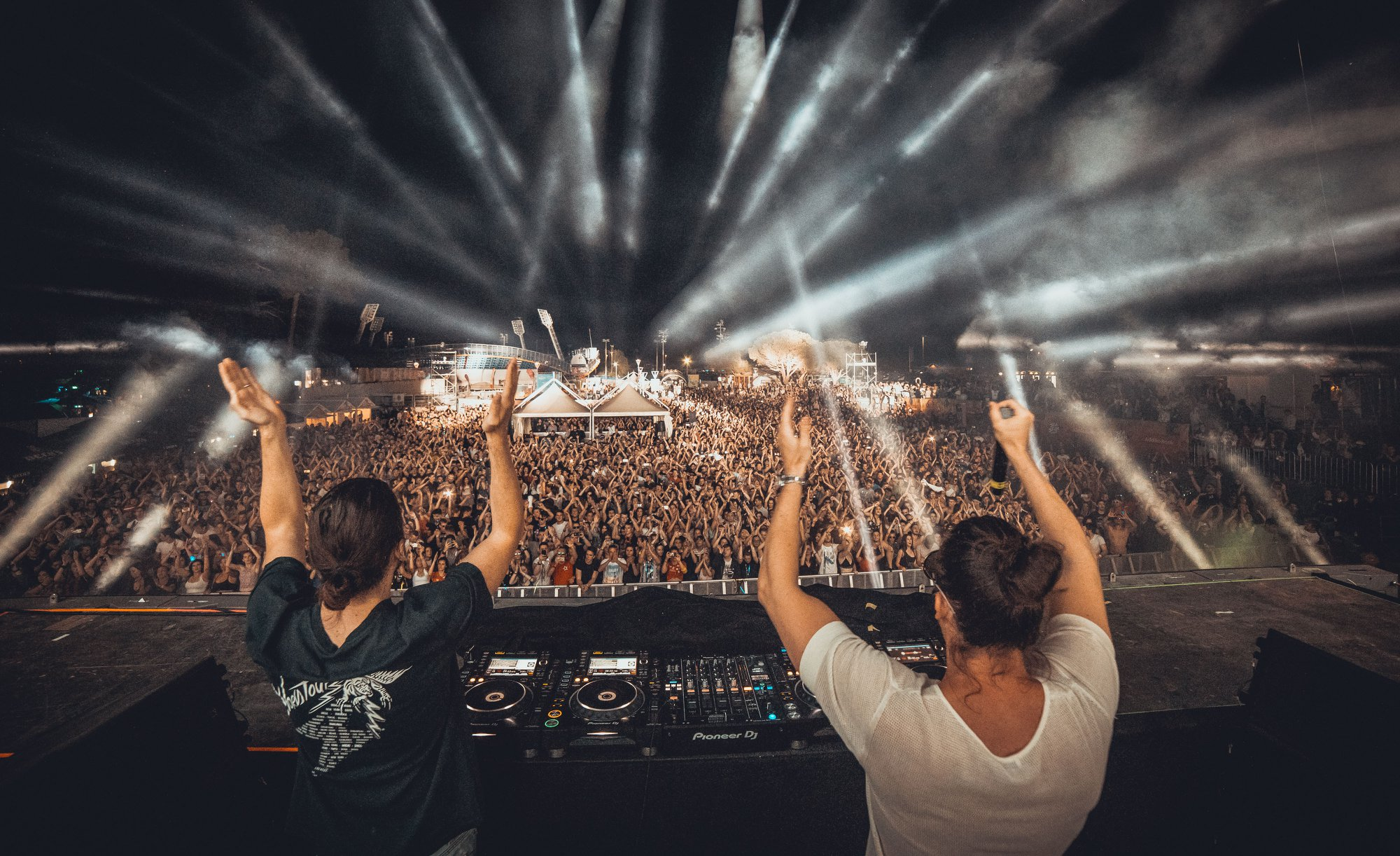 Dimitri Vegas & Like Mike at Addiko Main Tesla Stage, Sea Star Festival 2018